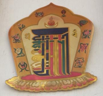 photograph of a sticker of the Kālacakra monogram